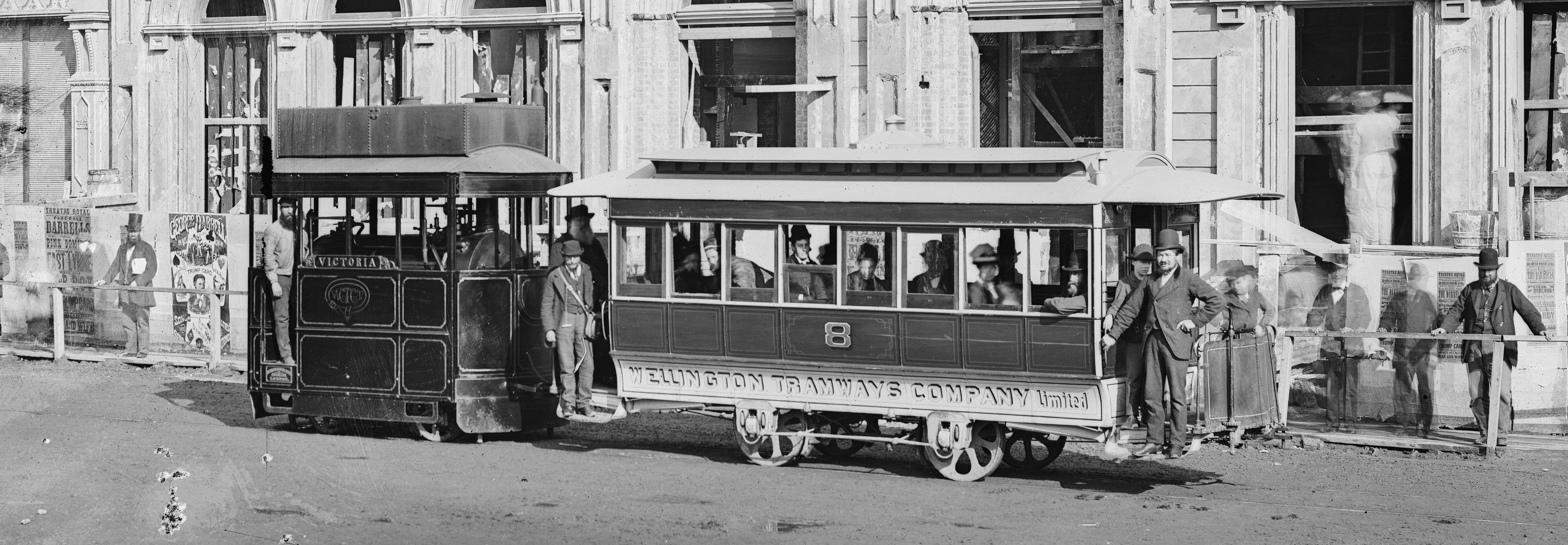 Tramway locomotive ‘’Victoria’’ by Merryweather & Sons, Clapham, London to be delivered late 1878. As supplied to Paris, Rouen, Barcelona and other continental tramways.The Evening Post